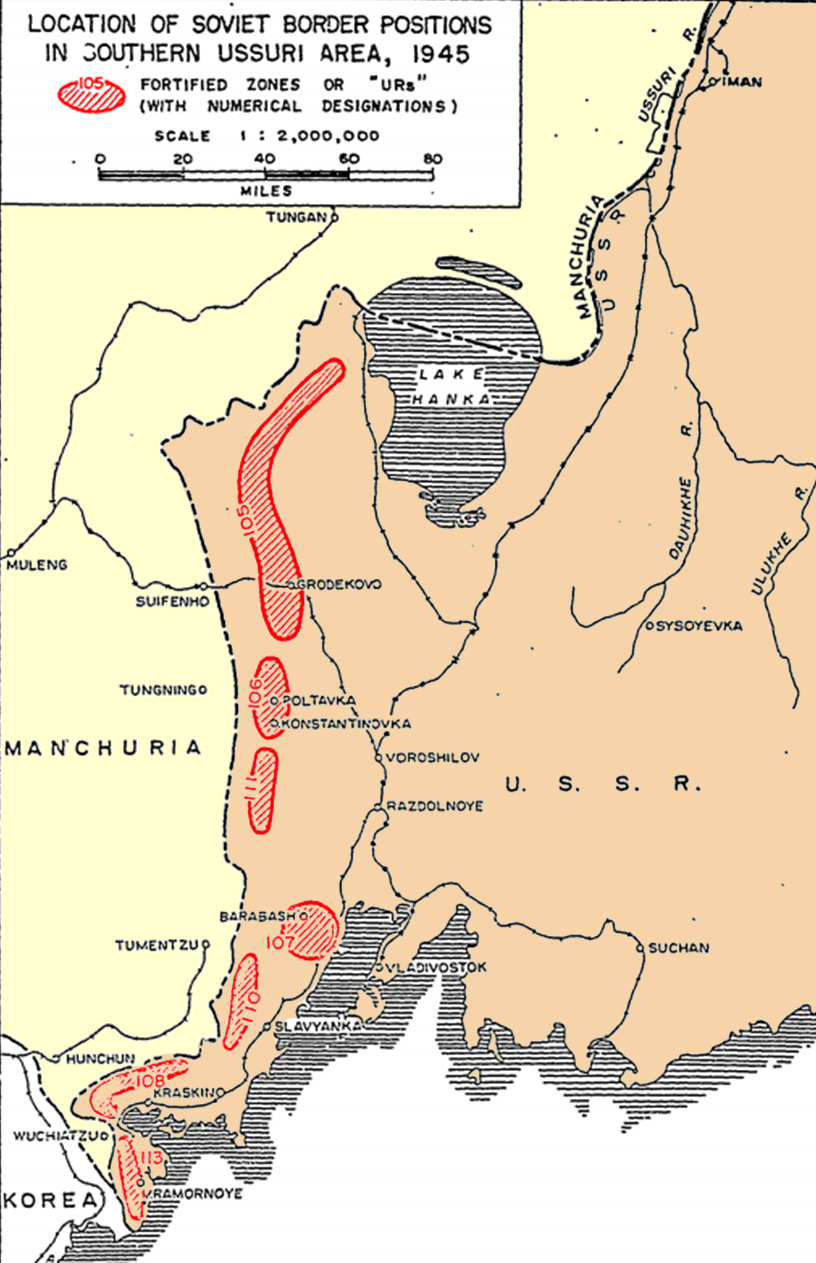 Map depicting Soviet defenses in the Ussuri region in 1945